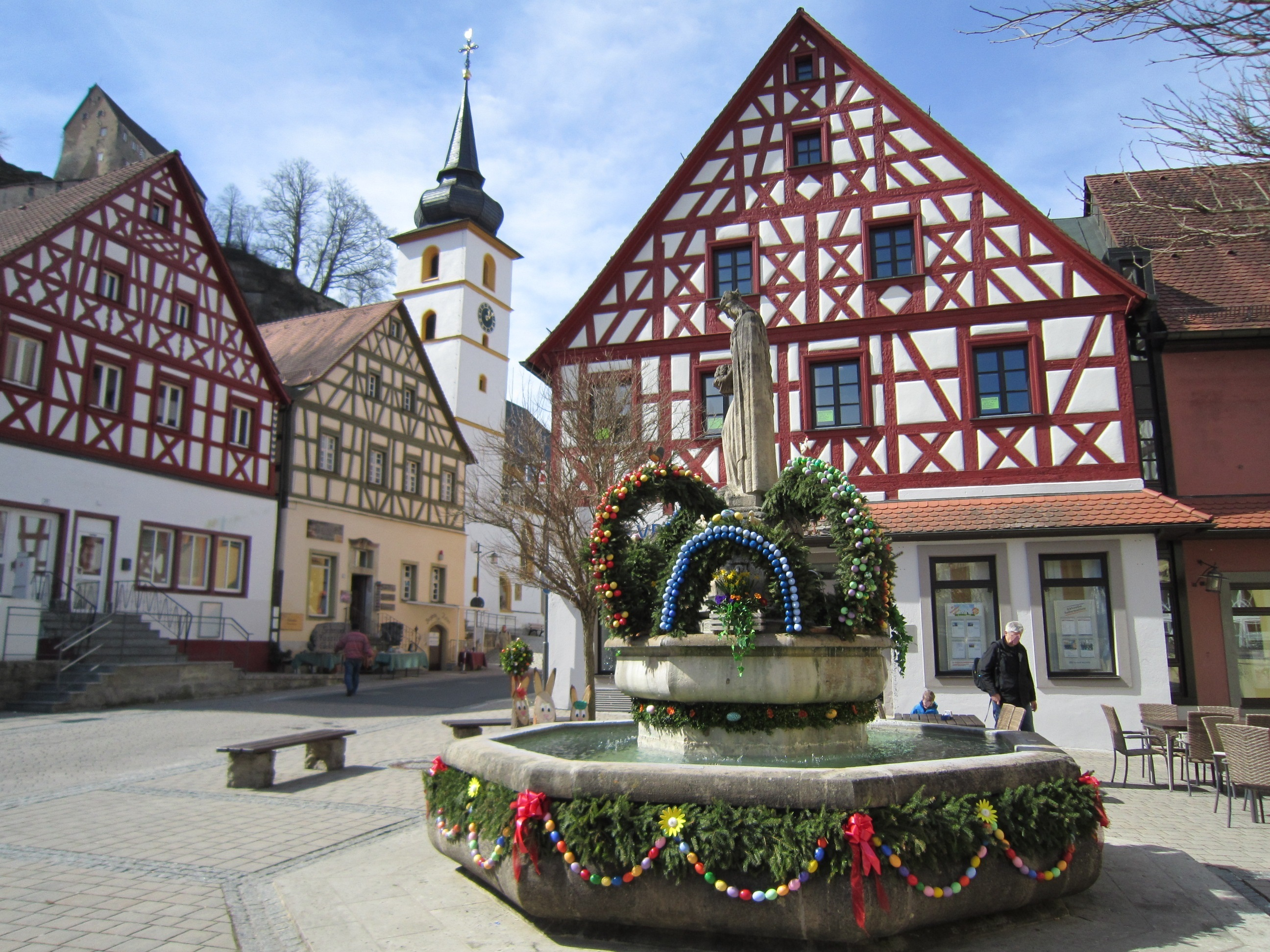 Elisabethbrunnen styled as an easter fountain in Pottenstein (Upper Franconia); in the background Pottenstein Castle